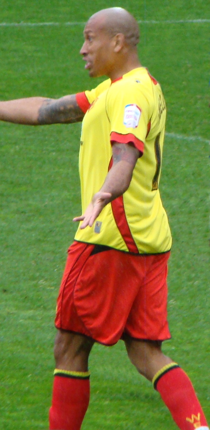 Striker Chris Iwelumo, playing for Watford FC at Cardiff City FC on 9 April 2012.